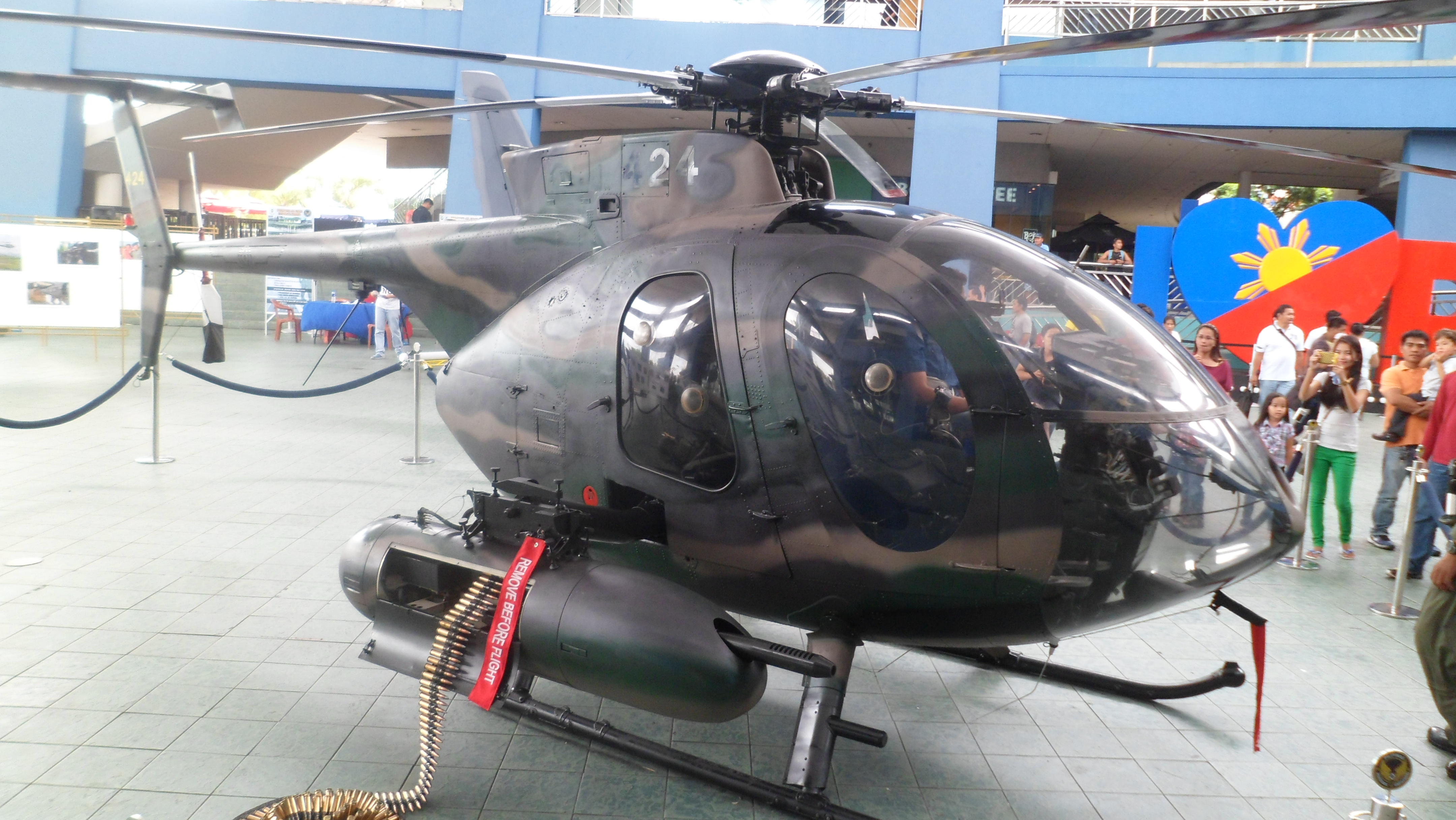 A Philippine Air Force MD-520MG Light Attack Helicopter. Taken during the 2013 Philippine Air Force Static Display at the SM Mall of Asia in Pasay, Philippines